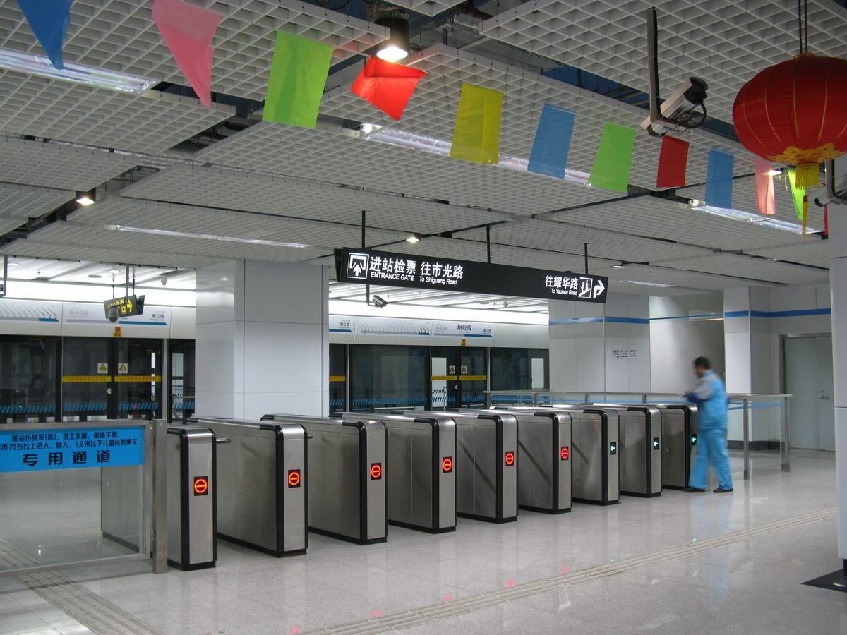 翔殷路站 8号线月台 Line 8 Platform of Xiangyin Road Station